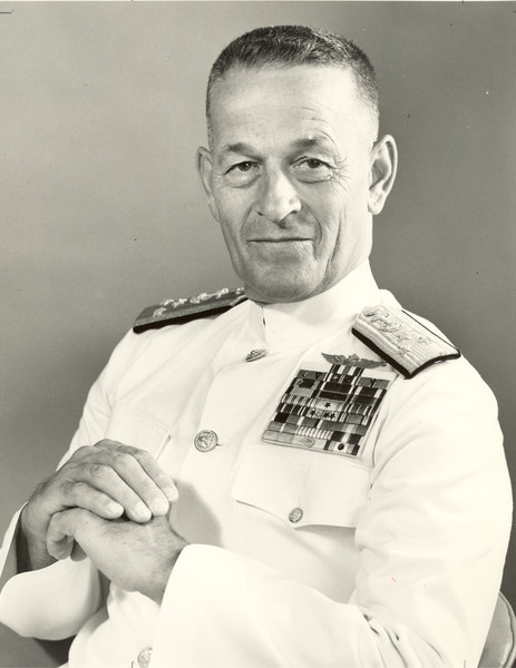 Vice Admiral John. T. Hayward Official Navy photo of Vice Admiral John T. Hayward, 1959.